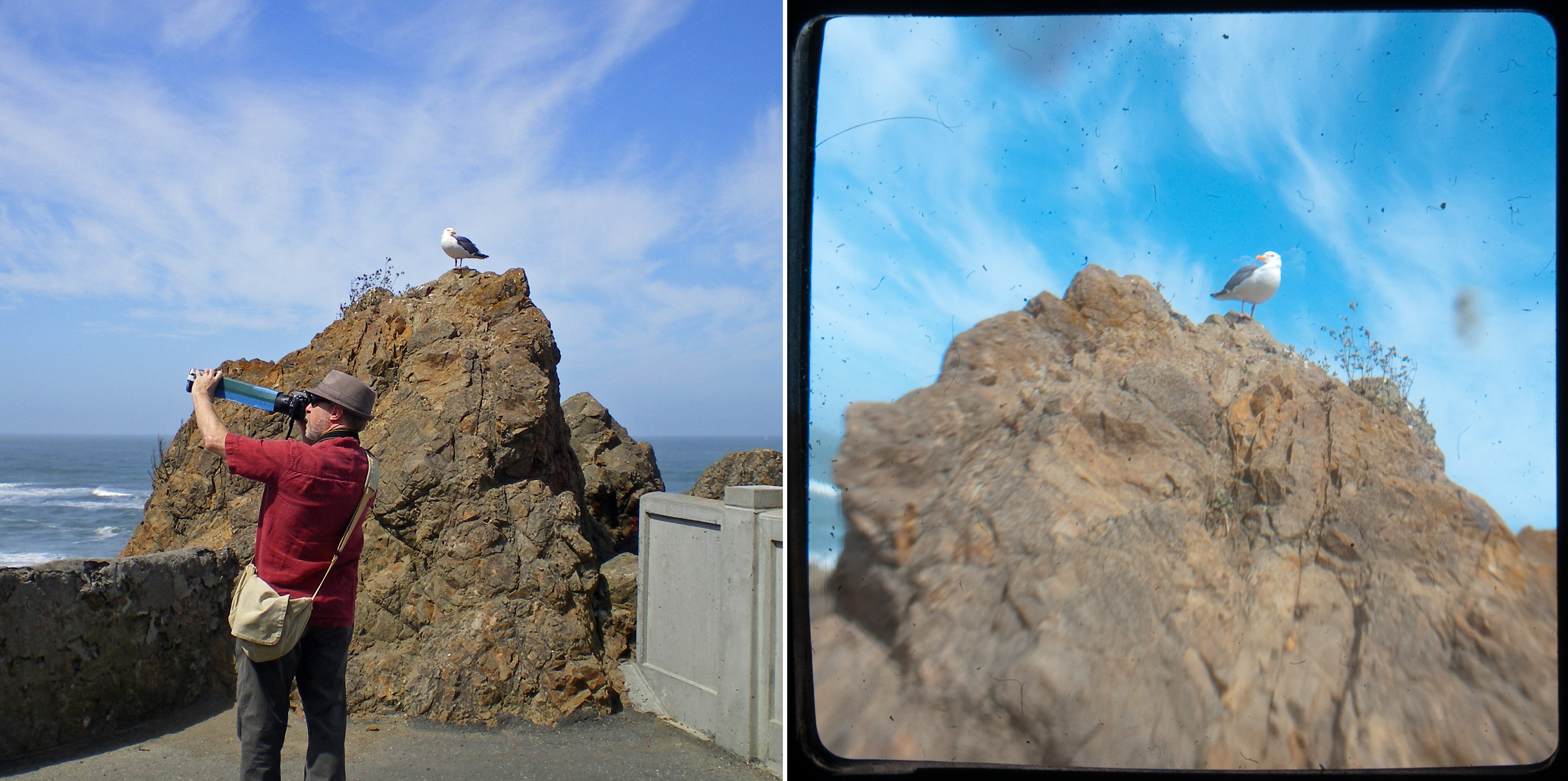 a photographer demonstrating the Through the Viewfinder photographic technique (left), resultant TtV photo (right)